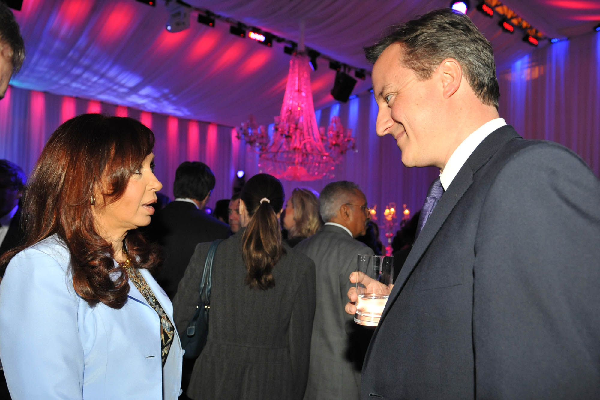 Argentine President Cristina Fernández de Kirchner with British PM David Cameron at Toronto, Canada during G20 summit